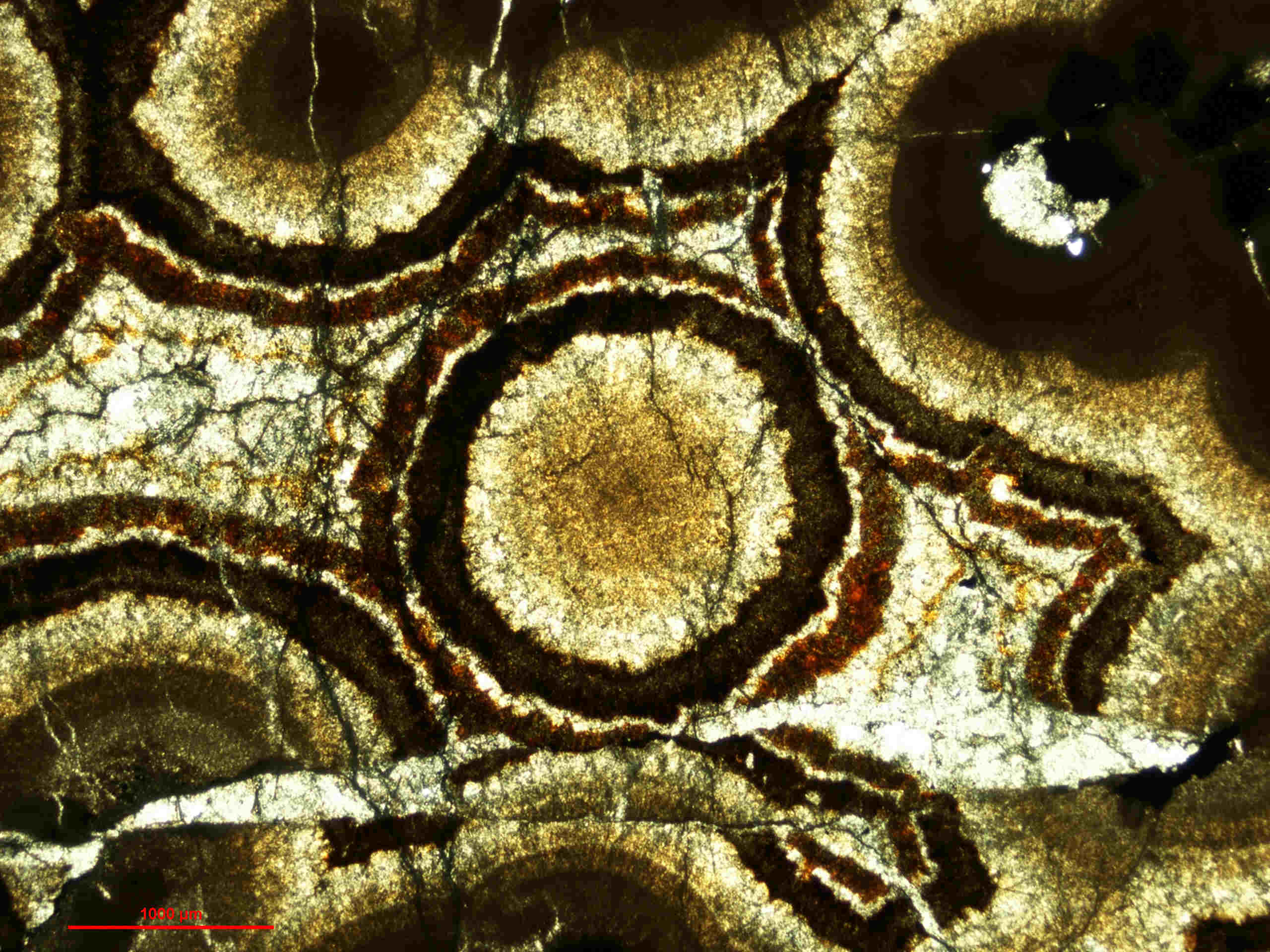 Colloform sphalerite from the Lisheen deposit (closed in 2015), which was mined for zinc (Zn) and lead (lead). Sphalerite is the ore mineral for zinc, which is a vital metal for transitioning to a greener, more sustainable future (it is used in several renewable technologies and can be 100% recycled). Ireland is one of the biggest suppliers of zinc in Europe, even though we only have one operational mine. This image was taken using an transmitted light microscope at UCD School of Earth Sciences as part of research being carried out by the Irish Centre for Research in Applied Geosciences (iCRAG) and UCD. Scale included in image.